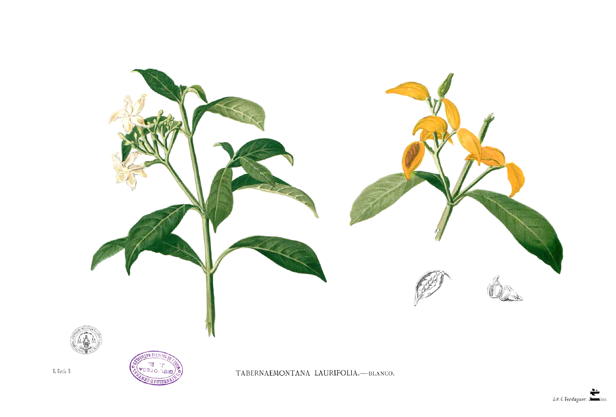 Plate from book